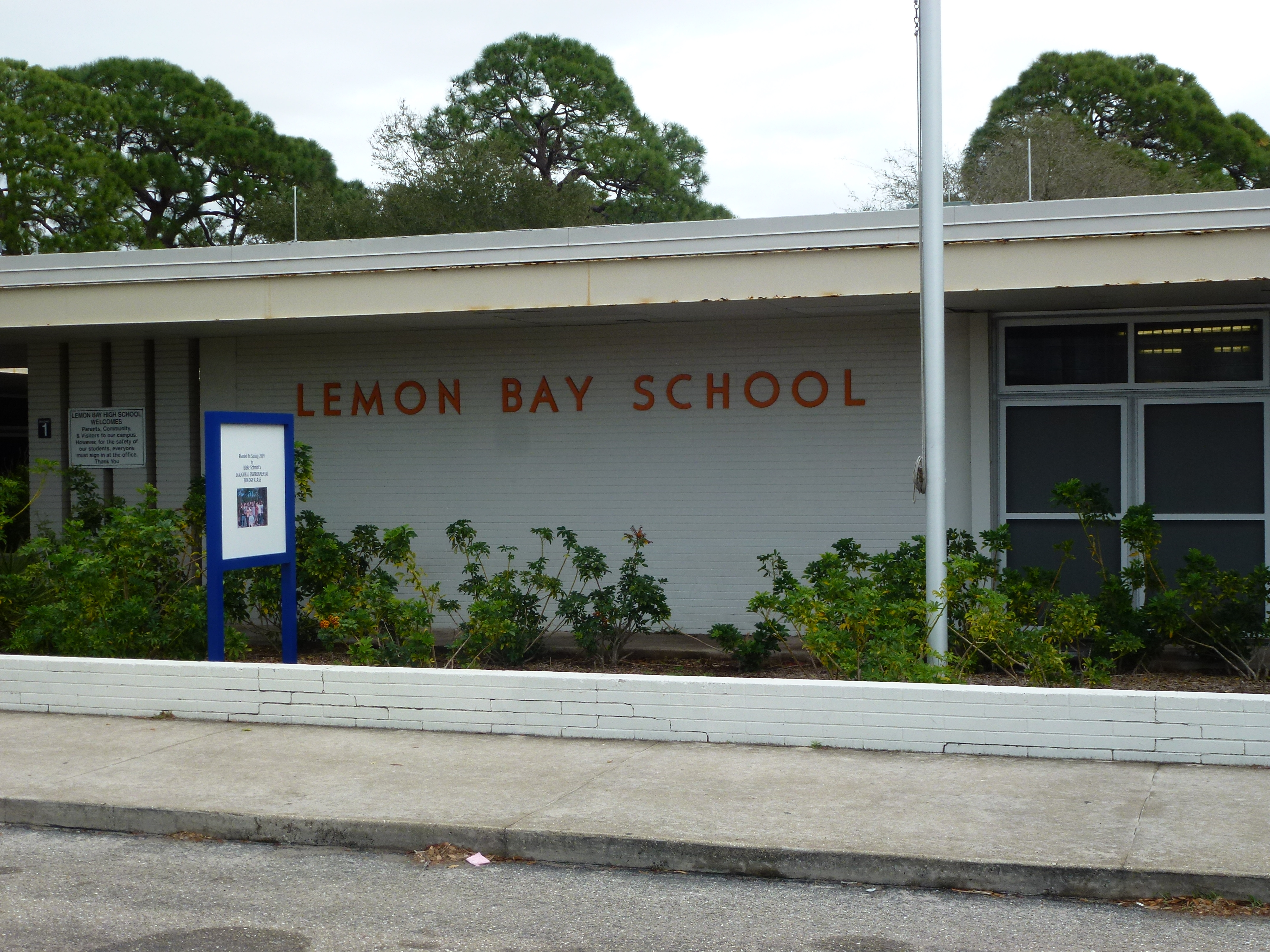 Lemon Bay High School in Englewood Florida. This is not the building where the main classrooms are, it is the building housing the administration, and next to the main entrance to the complex. This building is scheduled to be torn down in two years, so a replacement picture will be needed.